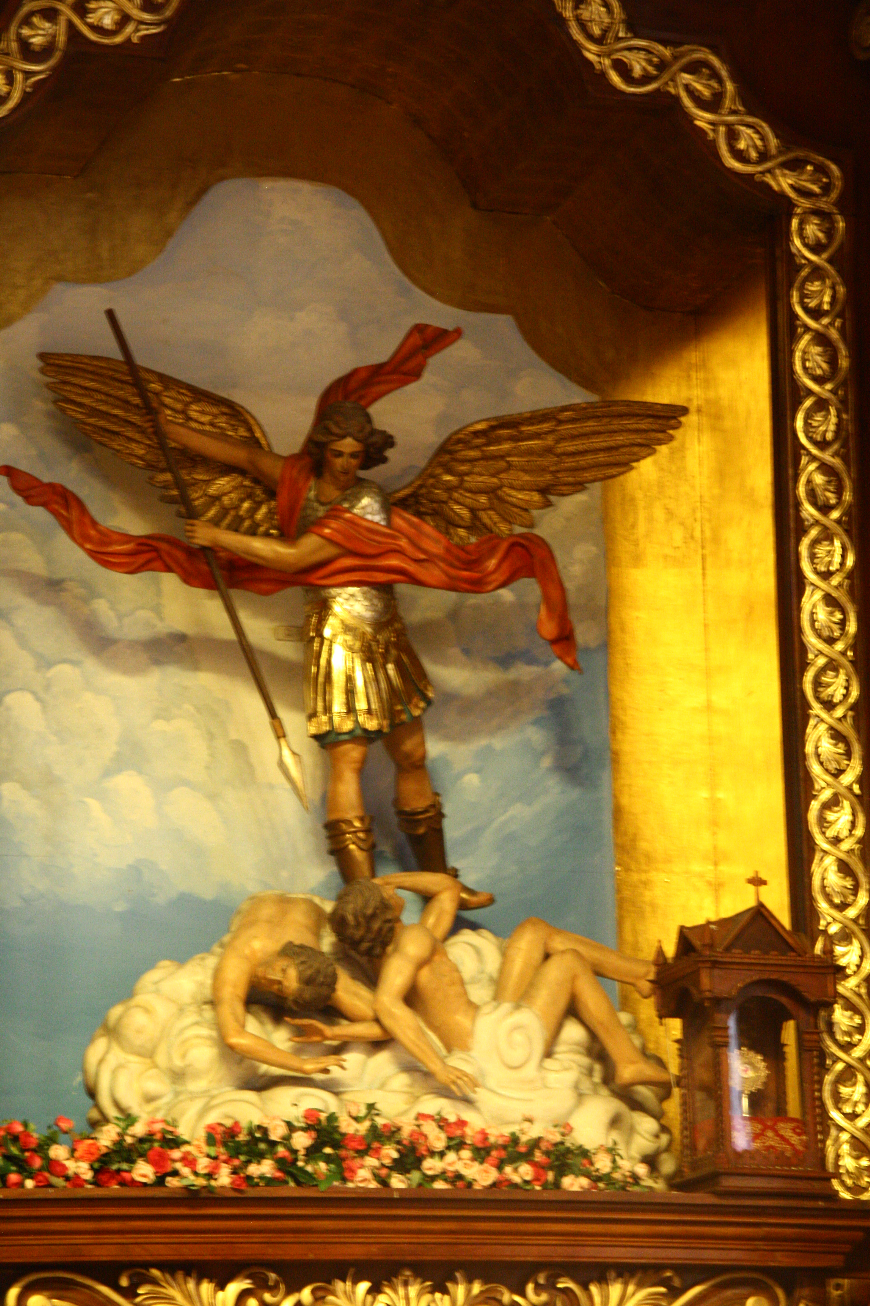 Image of Saint Michael and Reliquary